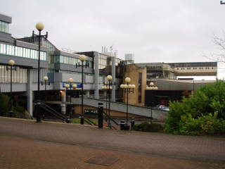 Cumbernauld Town Centre